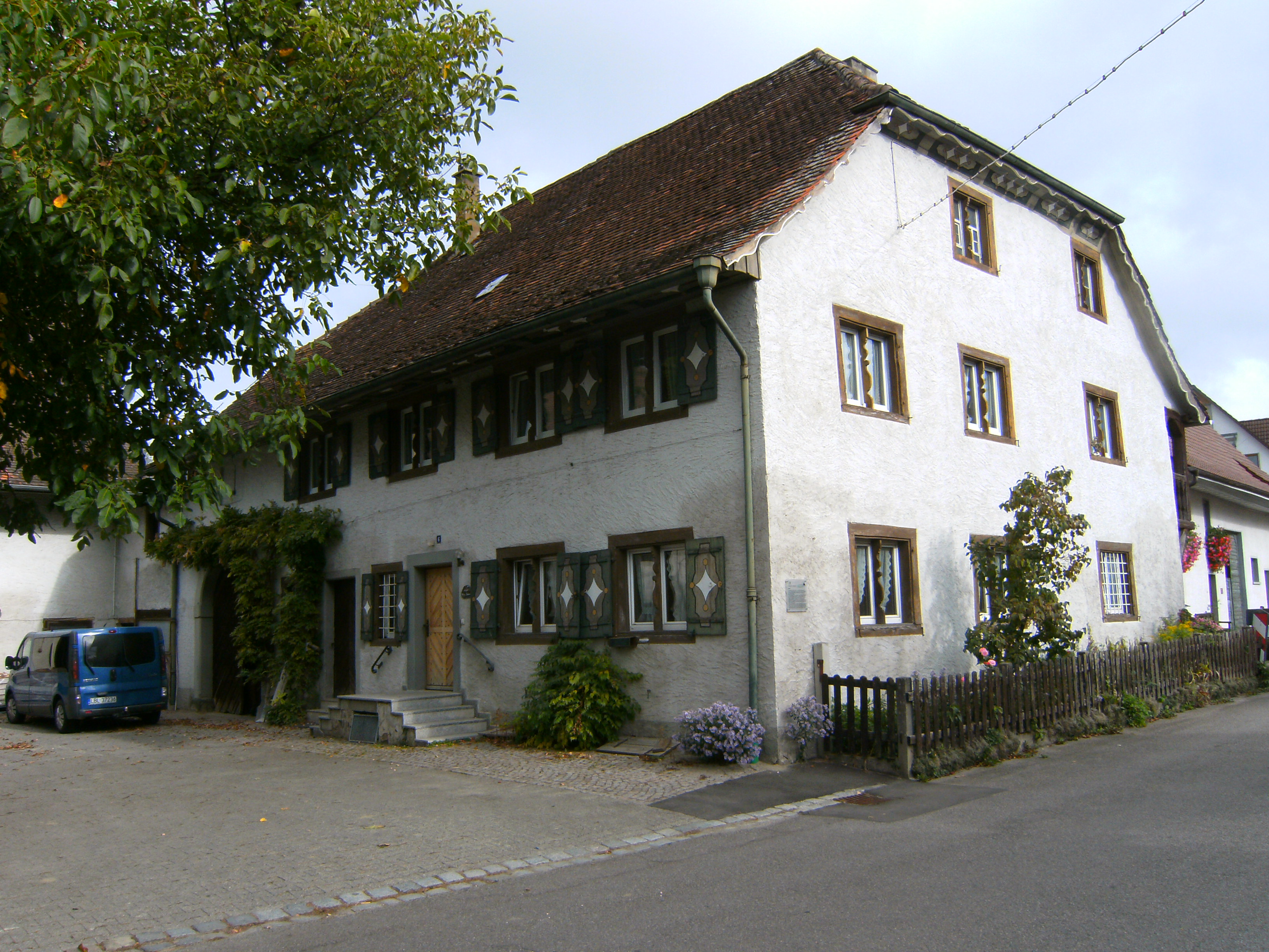 Bermatingen im Bodenseekreis, Germany: Building Kehlhof. Head quarter of Eitelhans Ziegelmüller from march to april 1525 in the German Peasants' War.